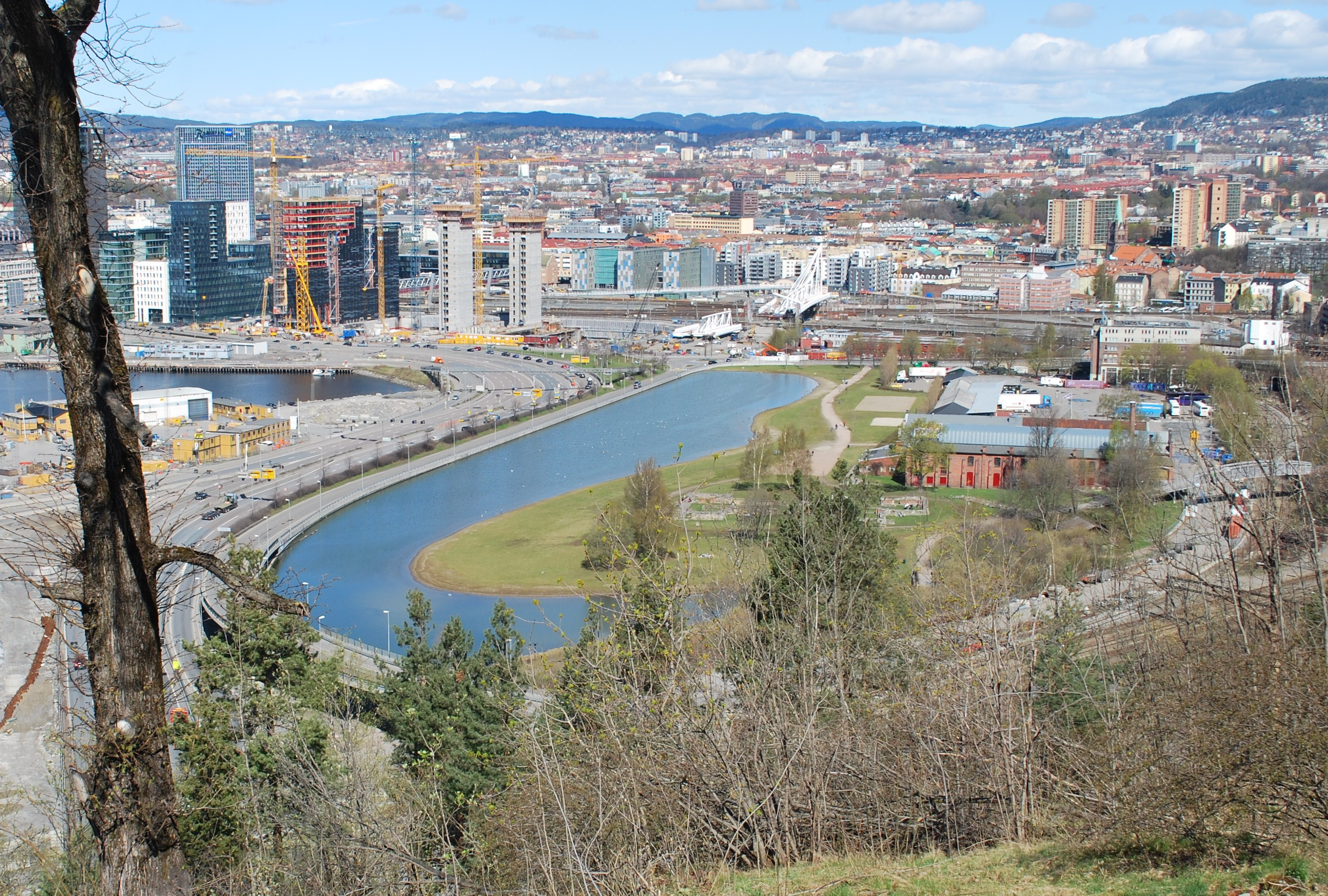 Middelalderparken, seen fram Ekeberg